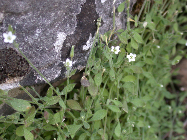 Arenaria deflexa Decne. (ארנריית הסלעים), Mount Peki'in, Upper Galilee, Israel, May 18, 2006.